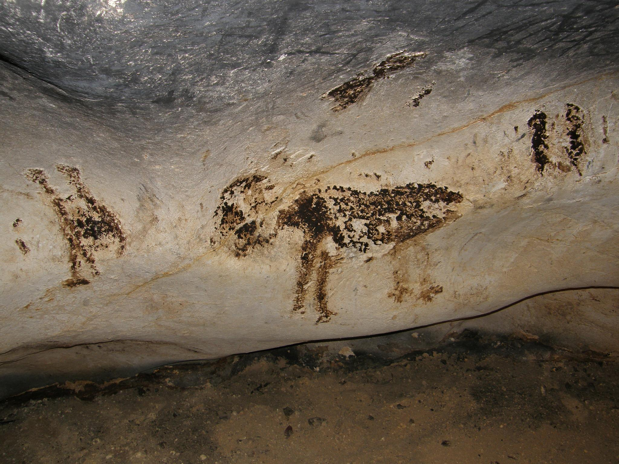 A Prehistoric Painting at the Magura cave identified as "The Scene with the Bear".